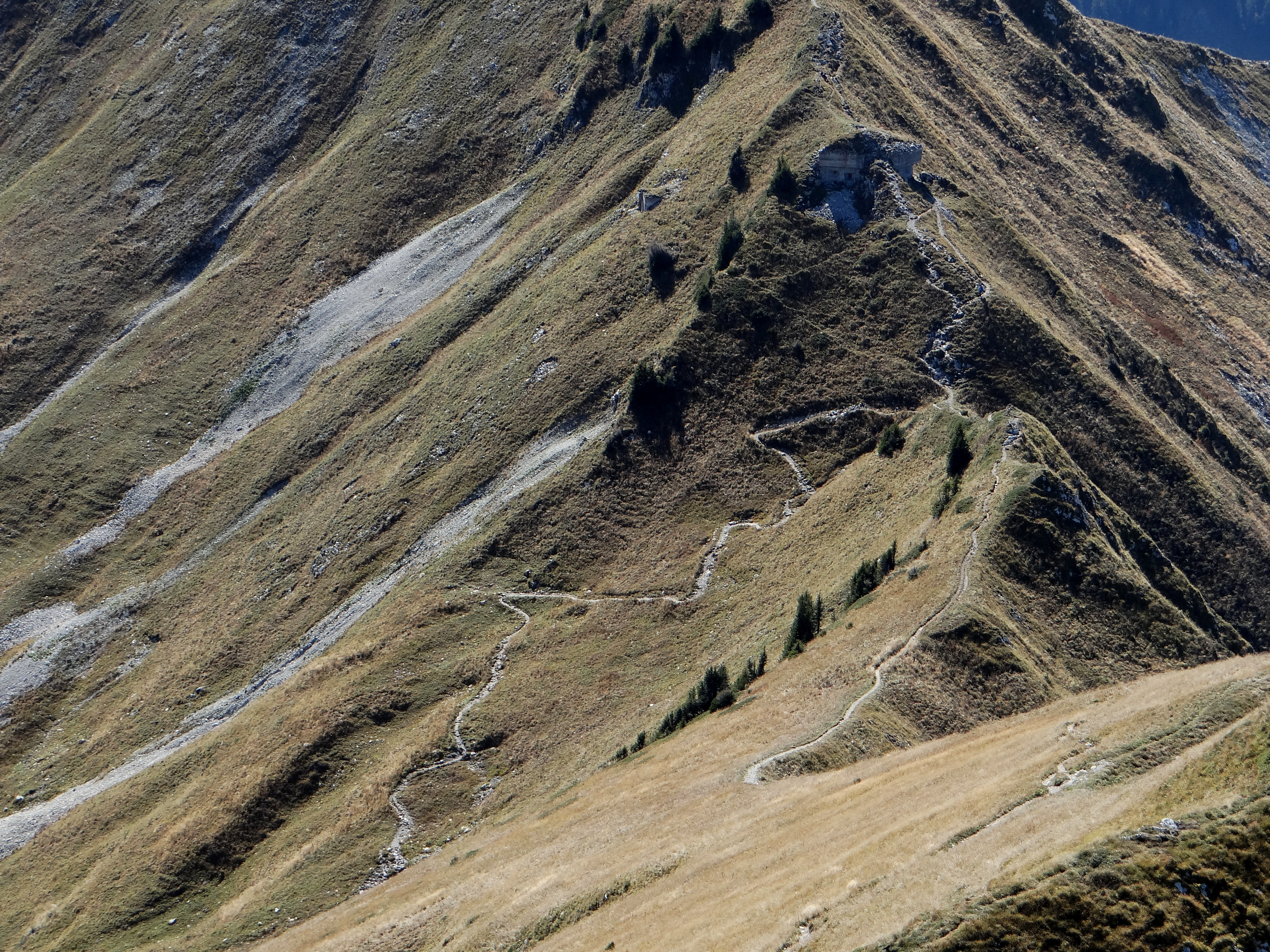 Nature Park Gantrisch